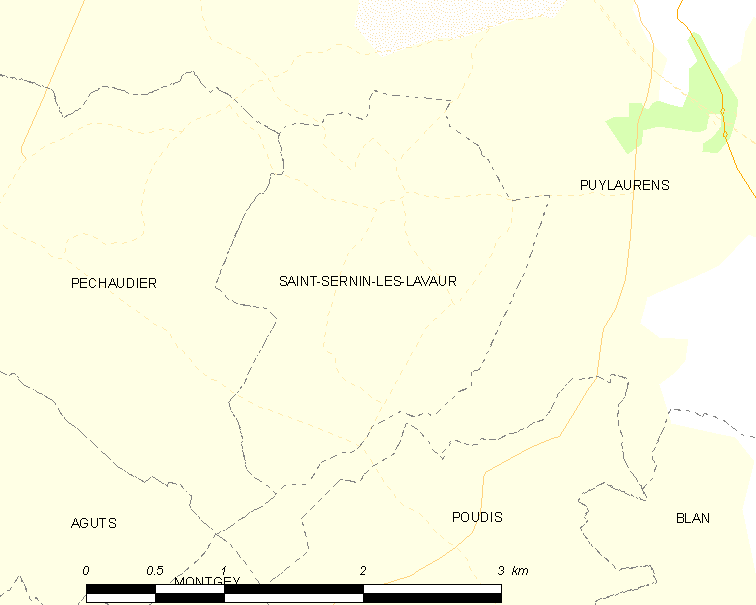 Map of French municipality Saint-Sernin-lès-Lavaur